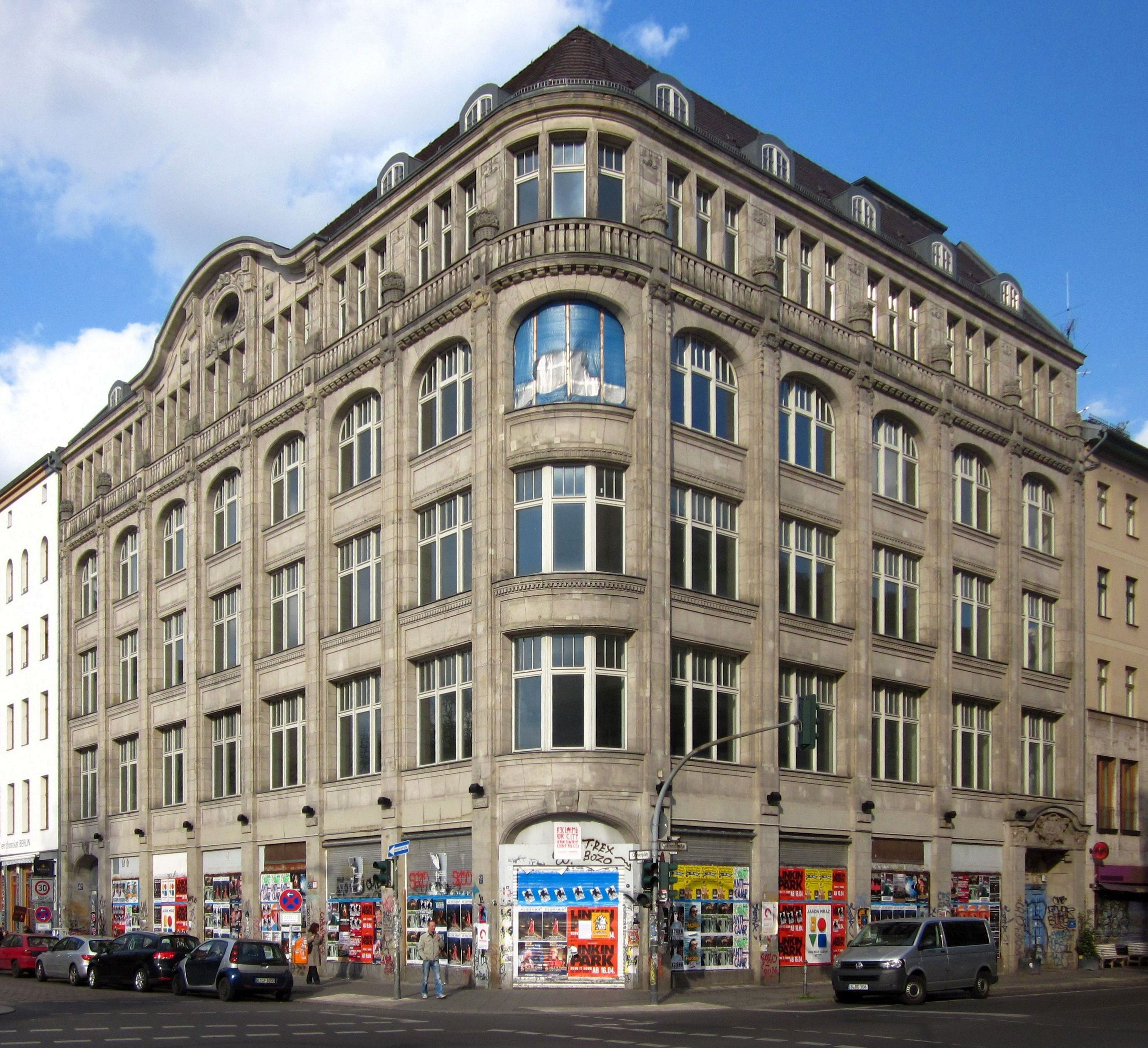 Commercial building Oranienstraße No. 40-41, corner of Oranienplatz (on the left), in Berlin-Kreuzberg. The building was constructed in 1913 to a design by the architects Cremer & Wolffenstein. It has been designated a historic landmark.